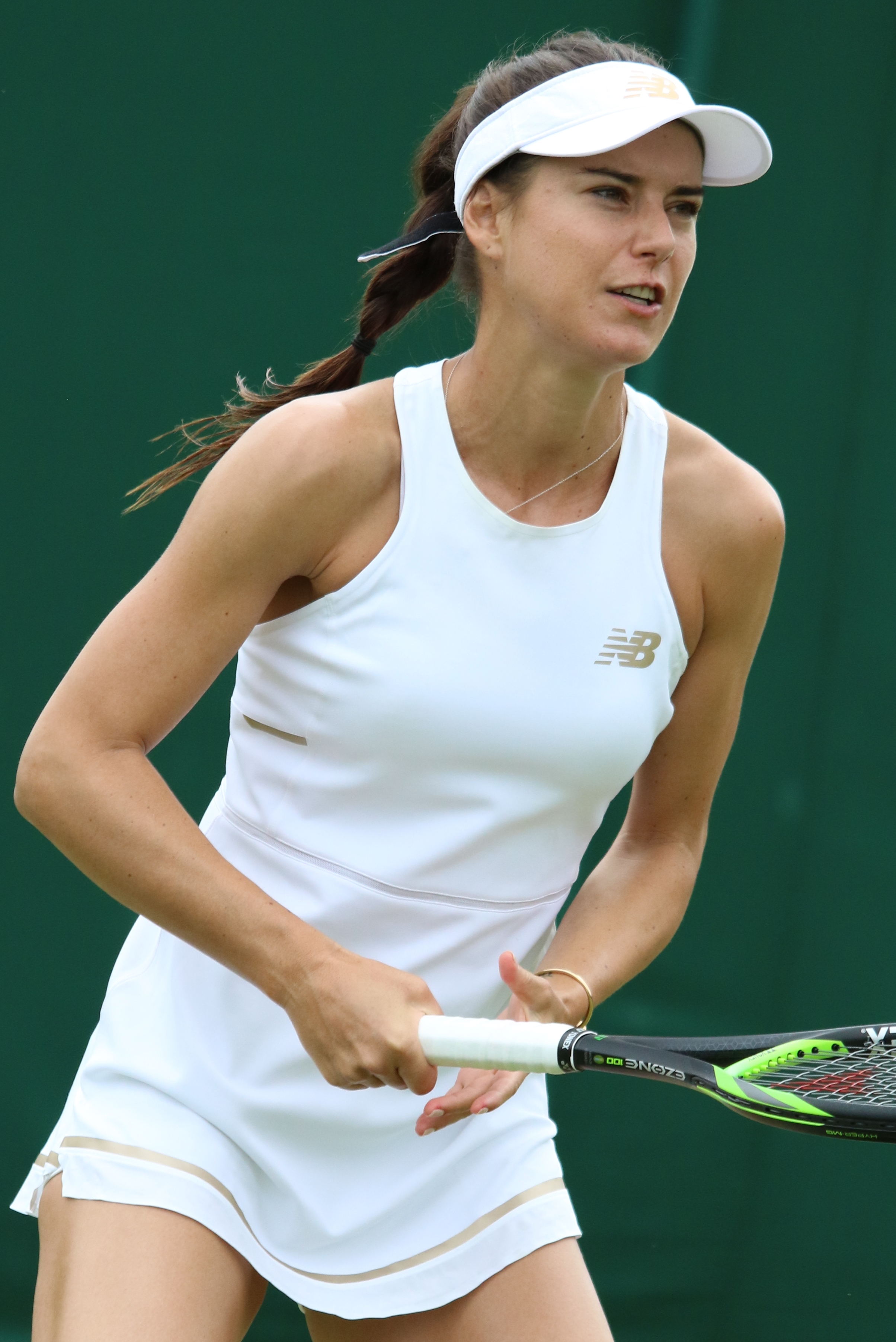 Cirstea WM19 (41)